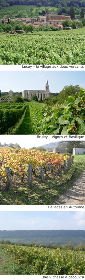 Some views from the Côtes de Toul in Lorraine